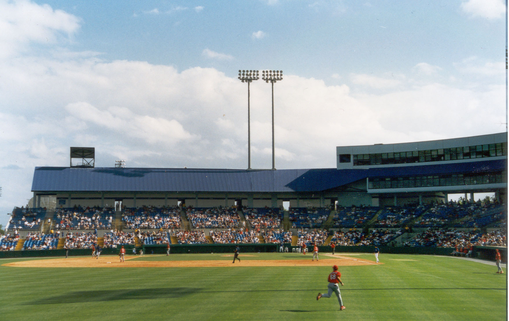 Al Lang field in St. Pete